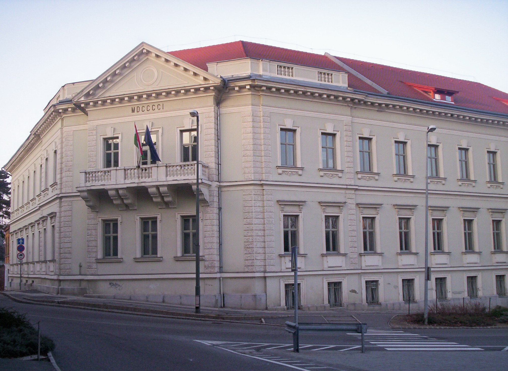 Description: Post Palace, Veszprém